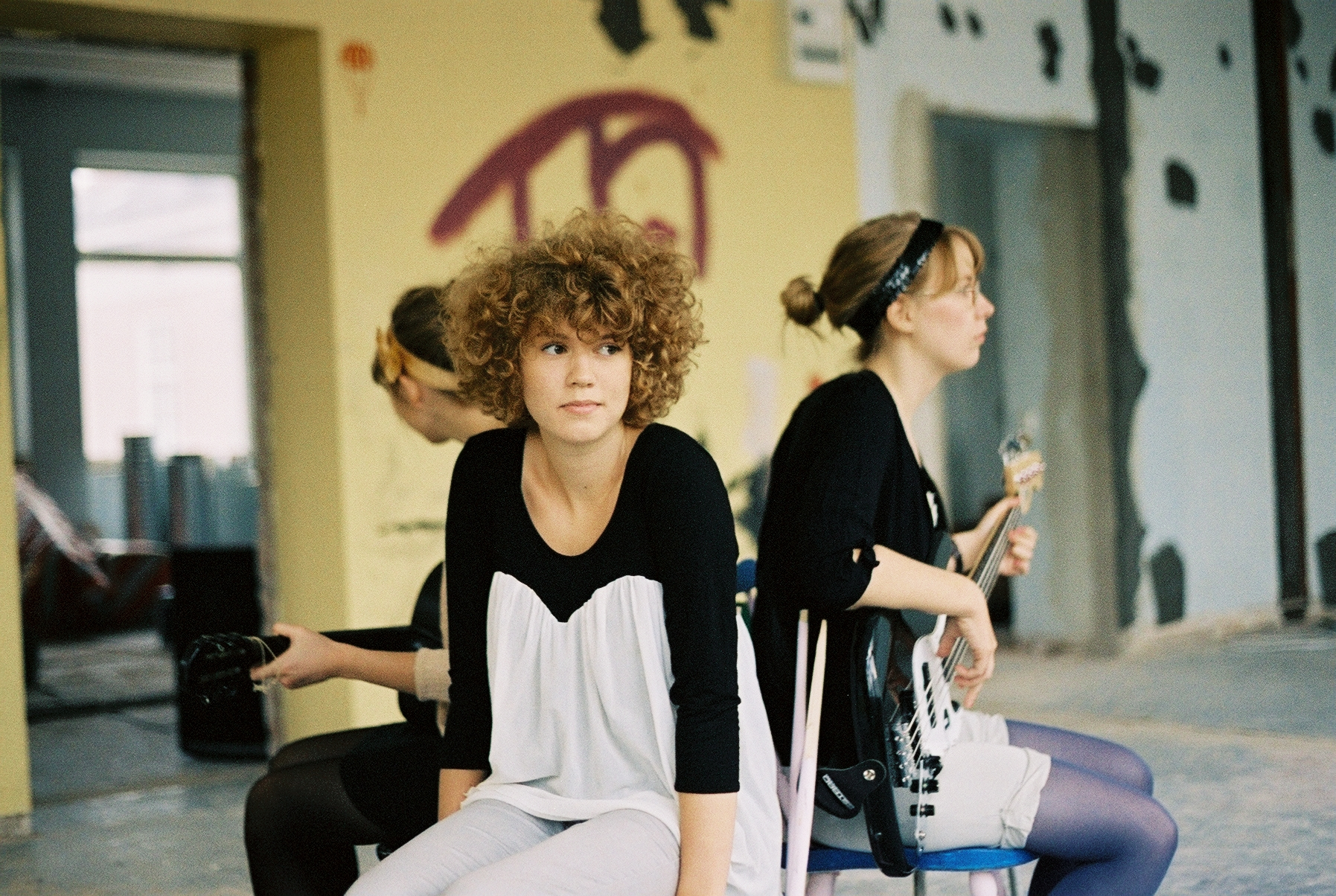 Those Dancing Days